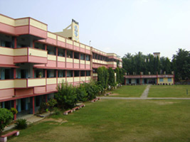 Photo of school